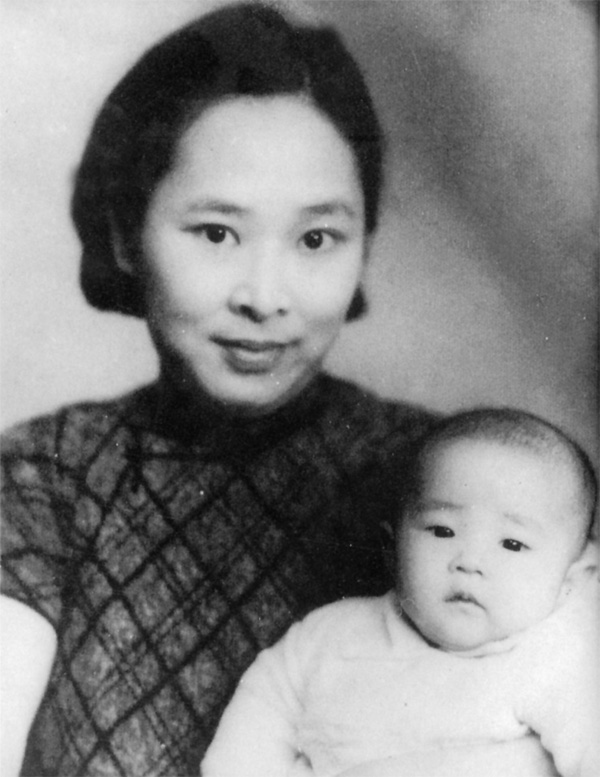 Zeng Xianzhi, Born in 1910, died in 1989, this photo was made in 1938 in Hong Kong.